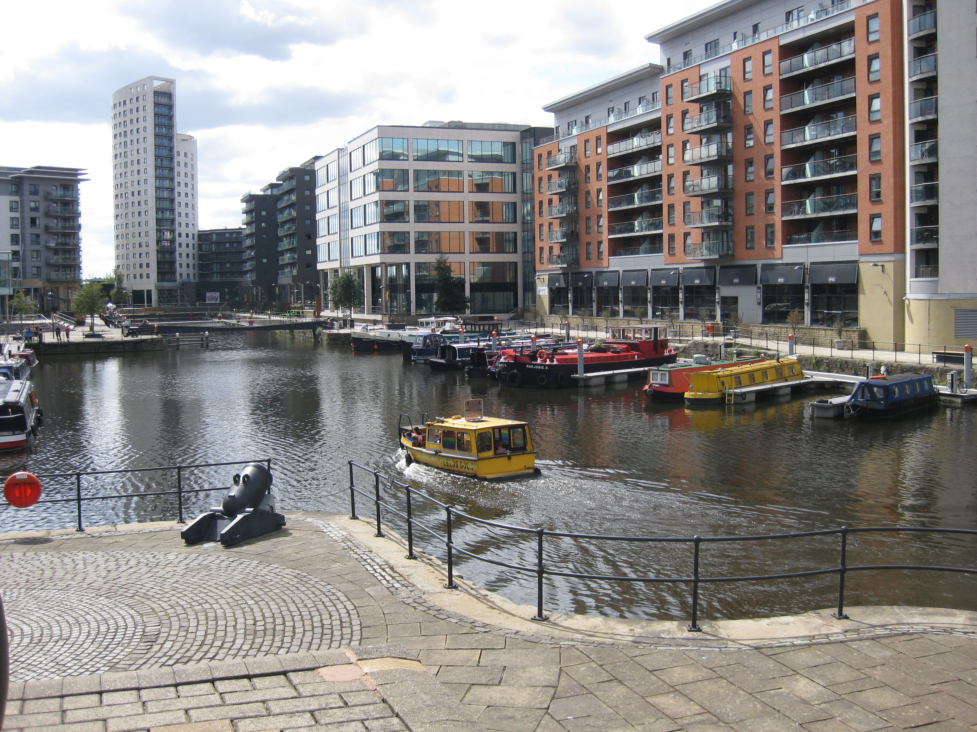 Leeds Dock. Looking south from the entrance towards Clarence House. A yellow water taxi is in the centre.